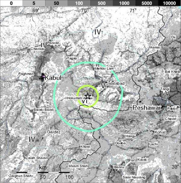 HINDU_KUSH_REGION,_AFGHANISTAN